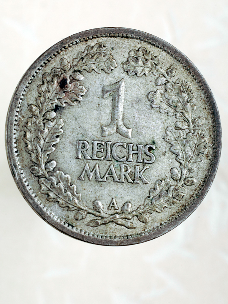 1 Reichs Mark from Germany (1926).